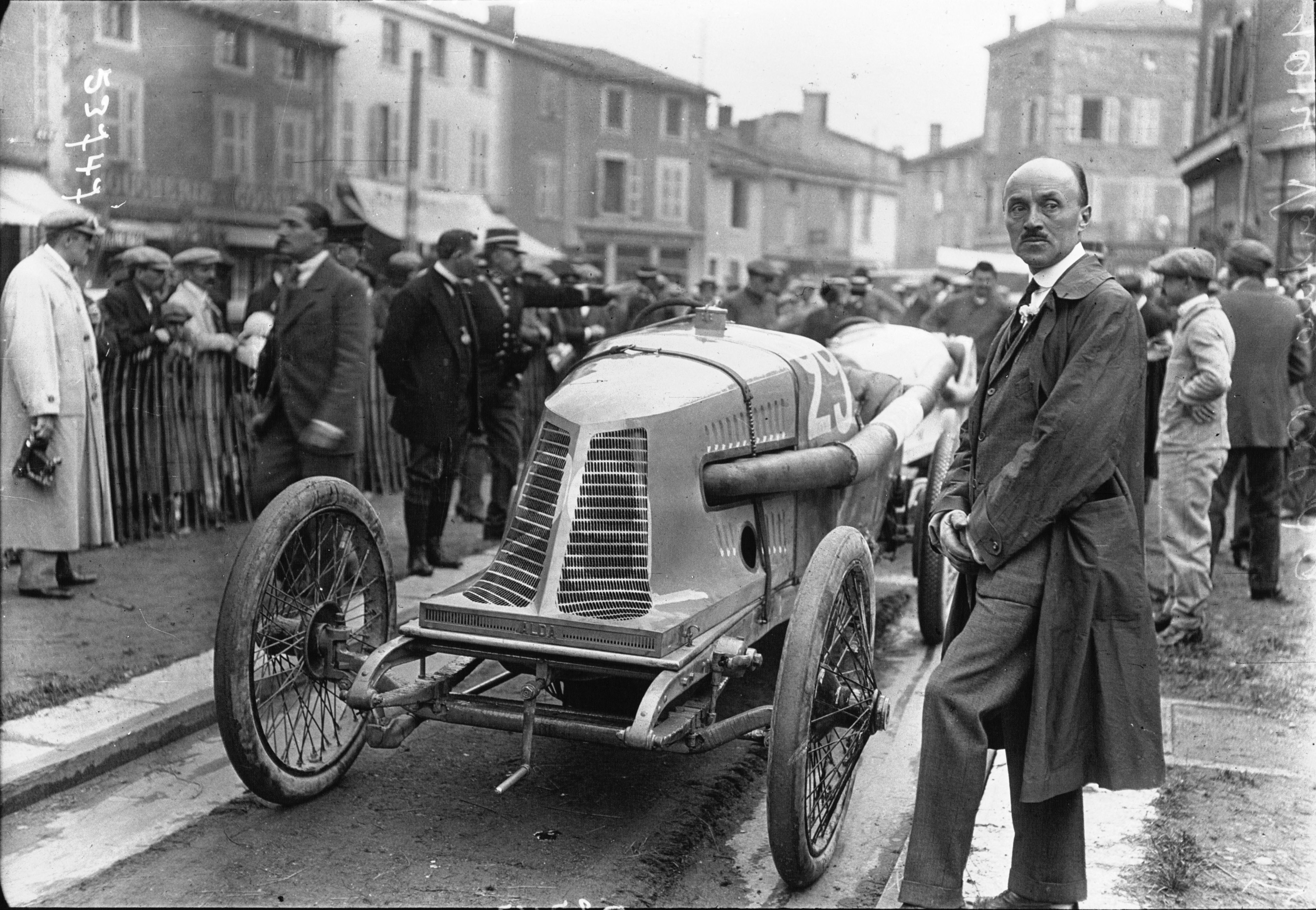 Fernand Charron at the 1914 French Grand Prix, standing next to the Alda (No.29) built by Charron, Girardot et Voigt. It was driven by Maurice Tabuteau but crashed during the race.